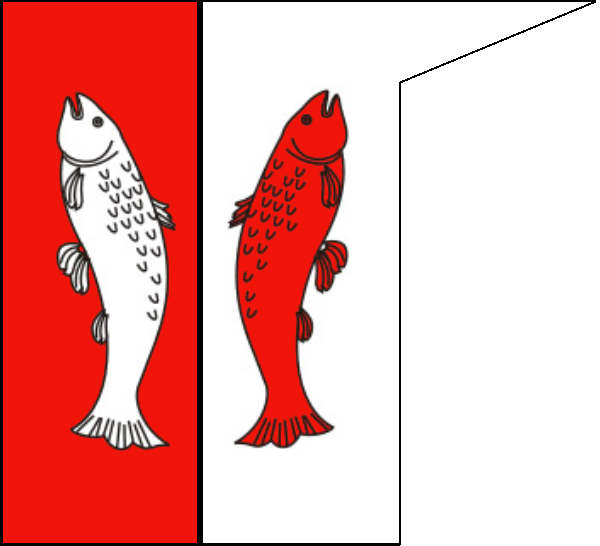 Banner of Wadwicz Coat of Arms